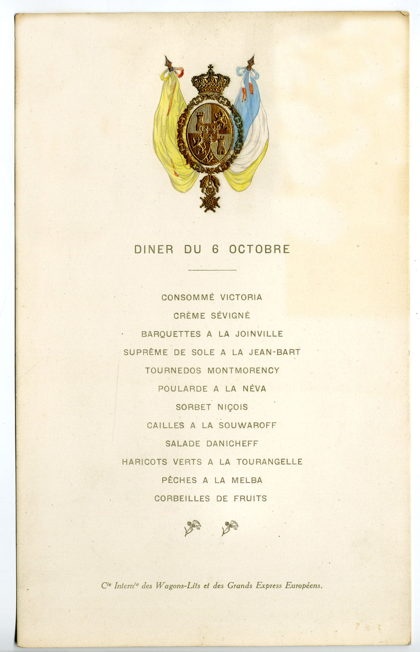 Menu of the dinner served on board the French presidential train on October 6th, 1913 on a journey with the King of Spain